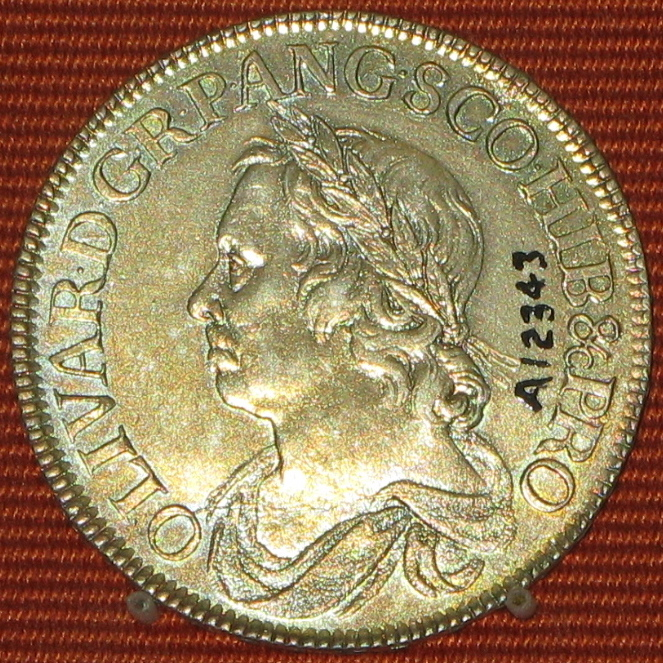 Gold coin of the Commonwealth of England (1649–1660). The face is that of the Lord Protector of England, Oliver Cromwell, adorned with a laurel wreath and a Roman toga. The Latin inscription reads "OLIVAR•D•GR•P•ANG•SCO•HIB&PRO", which translates to "Oliver, by the Grace of God Protector of the English, Scottish, Irish, etc. (people)" Coin is property of the Museum of London.